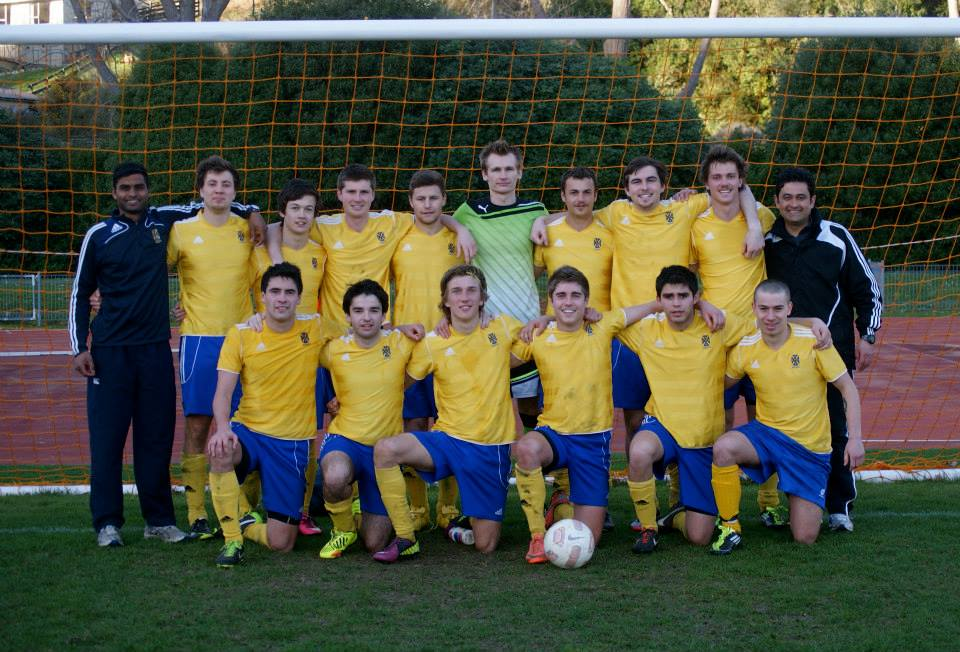 Photo of the clubs Mens 1st XI wearing their home strip in 2014